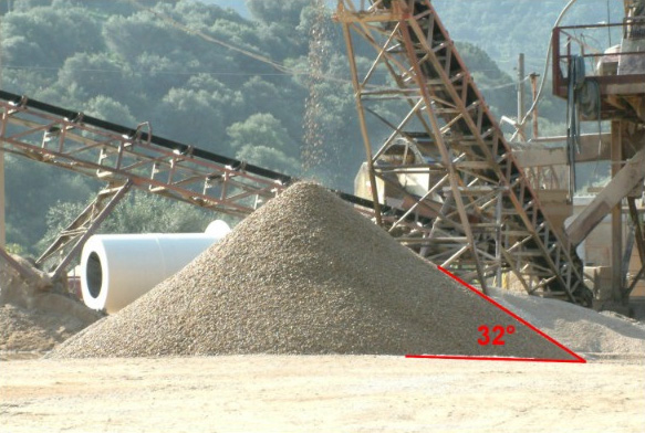 Angle of repose